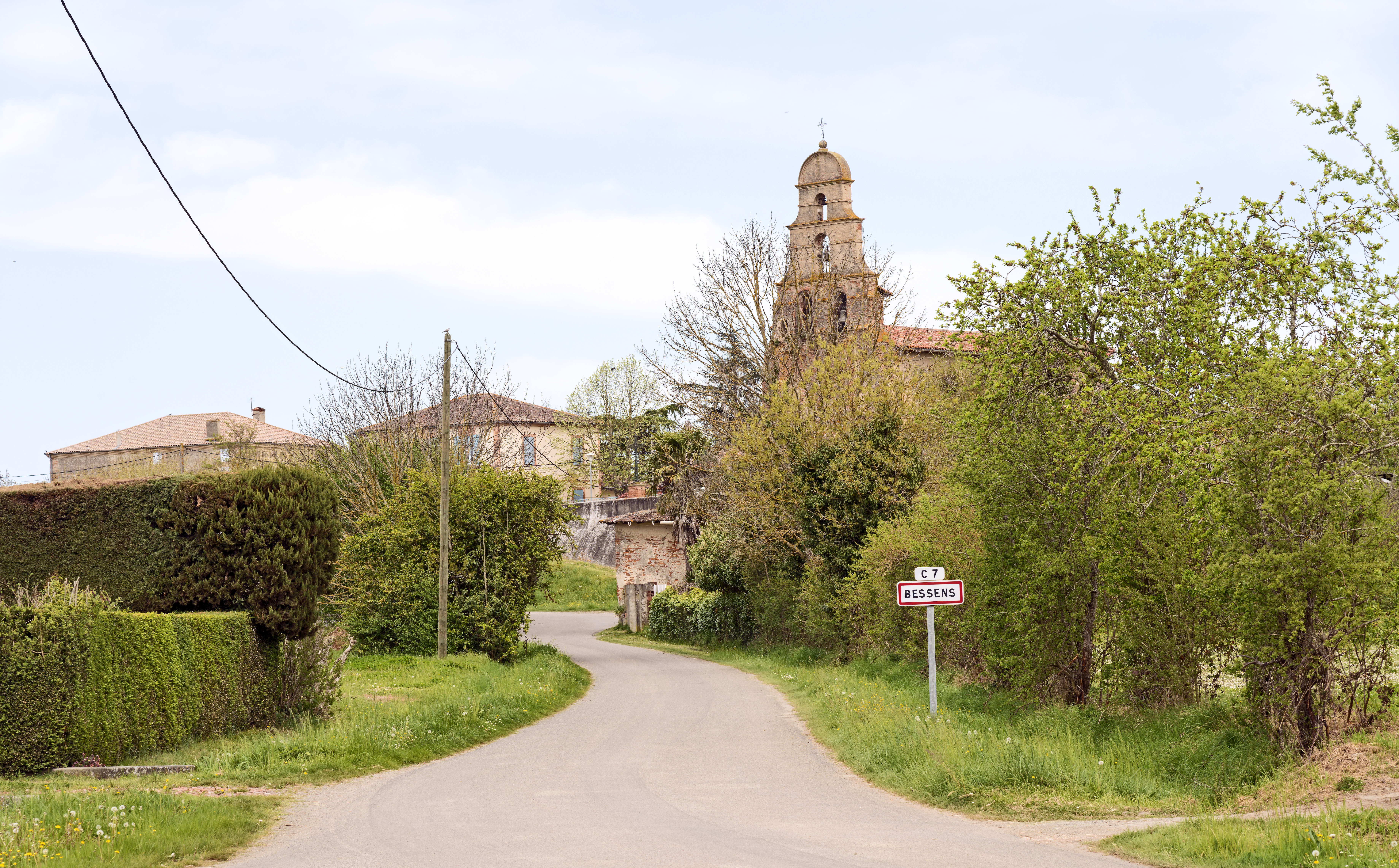 Le chemin de Verdun in Bessens, Tarn-et-Garonne France